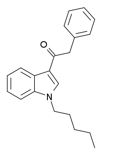 The molecular structure of JWH-167